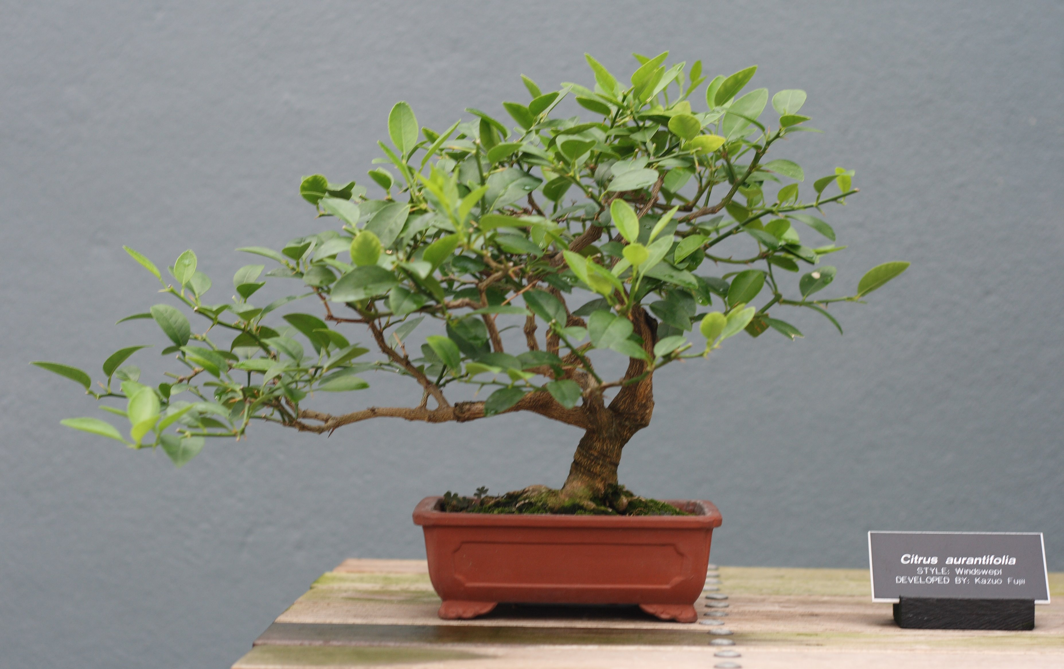 A Key Lime (Citrus aurantifolia) bonsai on display at the Brooklyn Botanic Garden. It was developed by Kazuo Fujii in the "windswept" style.